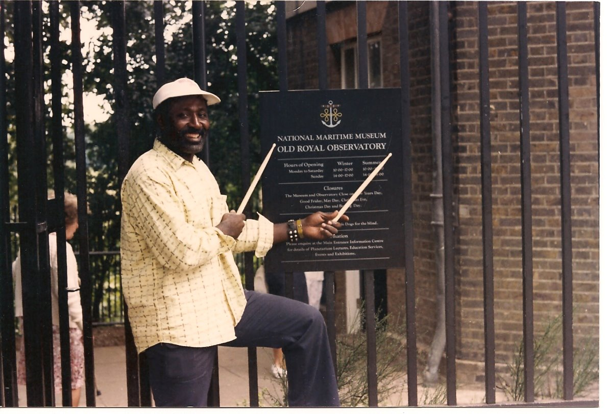 Winston Grennan - Visit to Greenwich Park, London